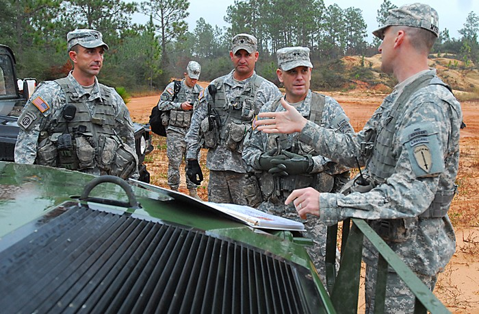 Capt. Matthew Myer, C Company commander, briefs Maj. Gen. Michael Ferriter, commanding general of Fort Benning, Ga., on the 10-day field training exercise students undergo in the swamp phase.